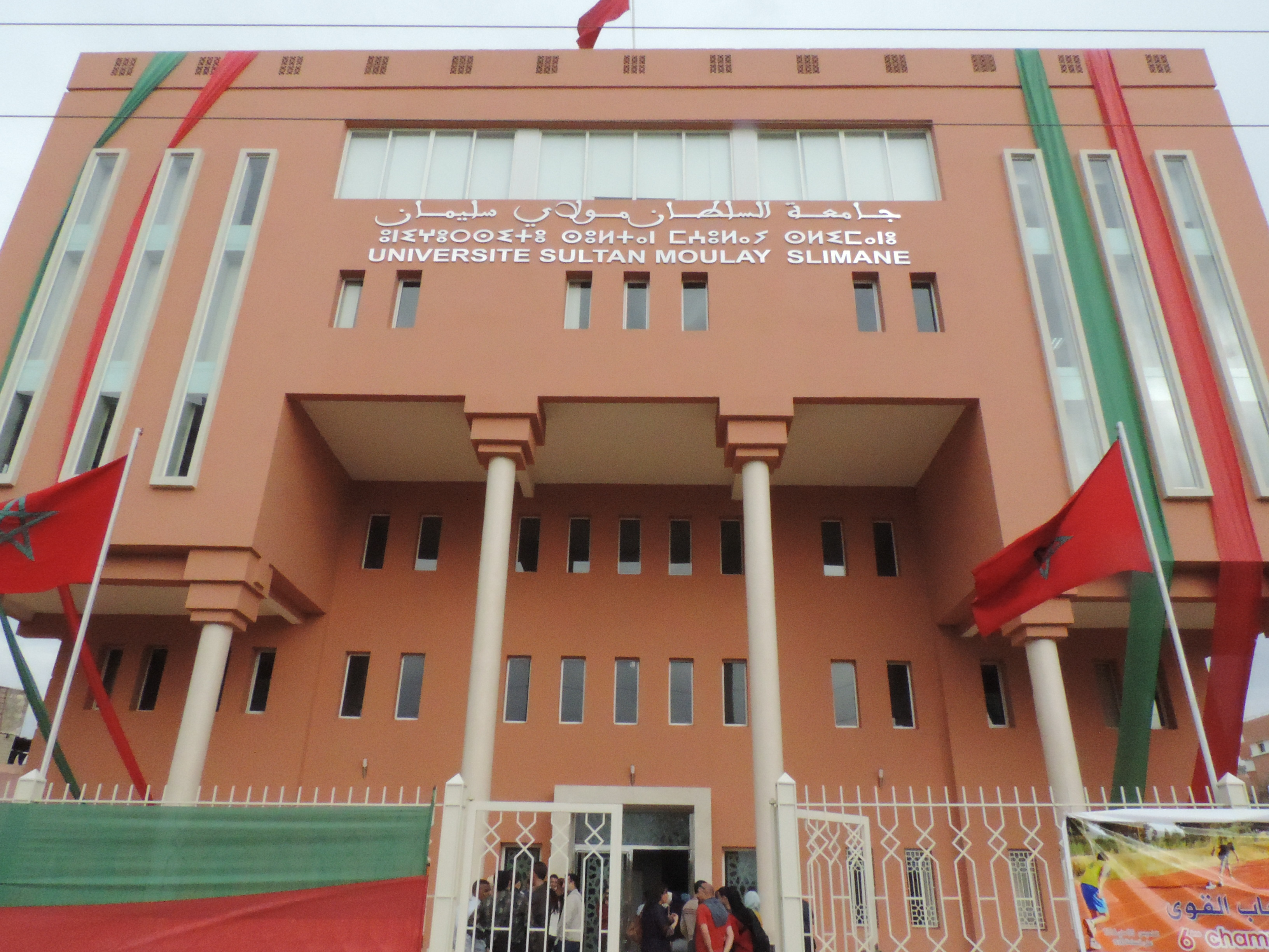 University Sultan Moulay Slimane, Beni Mellal, Morocco